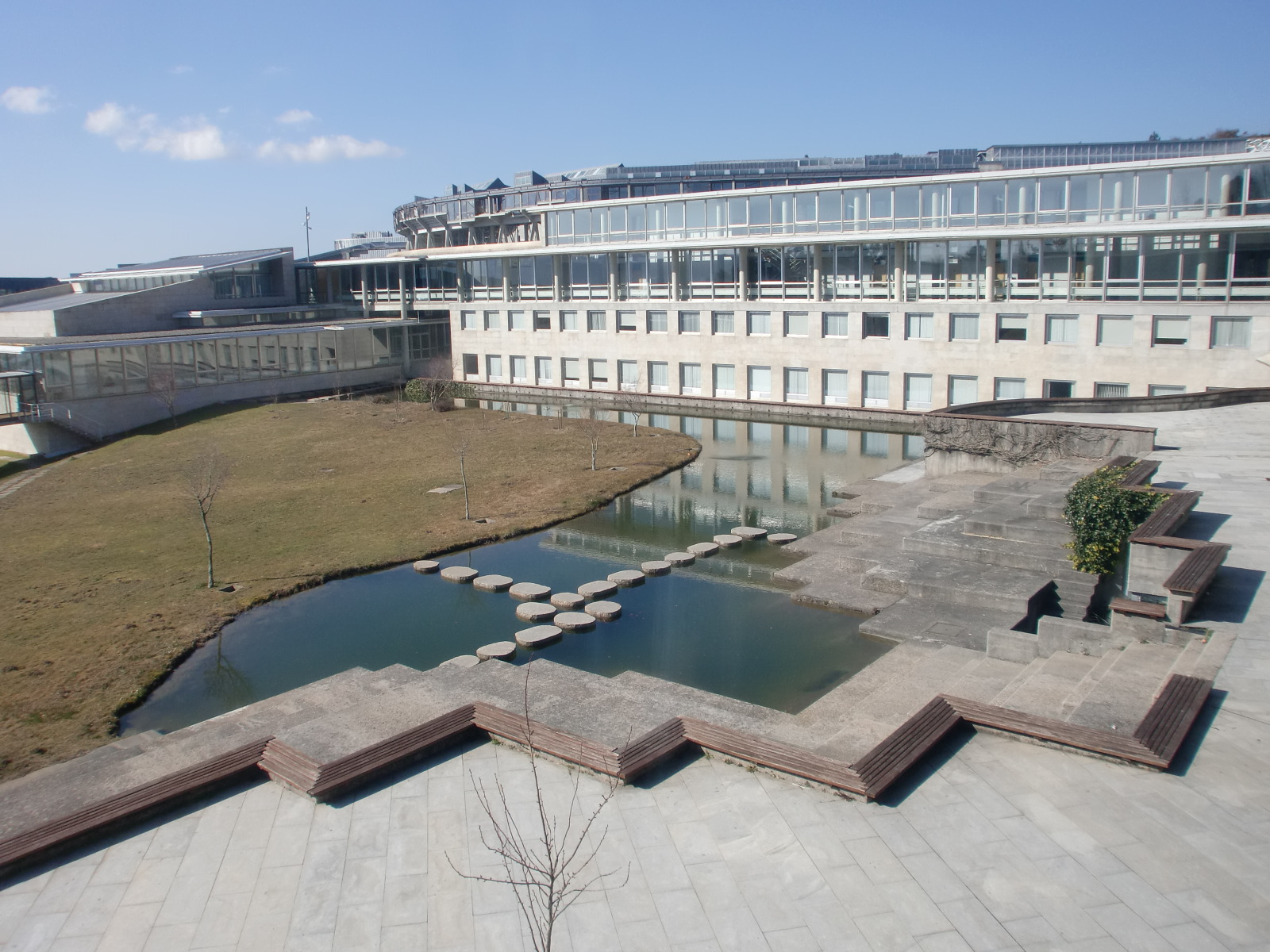 Internal lake of the Economics Faculty (University of Vigo)